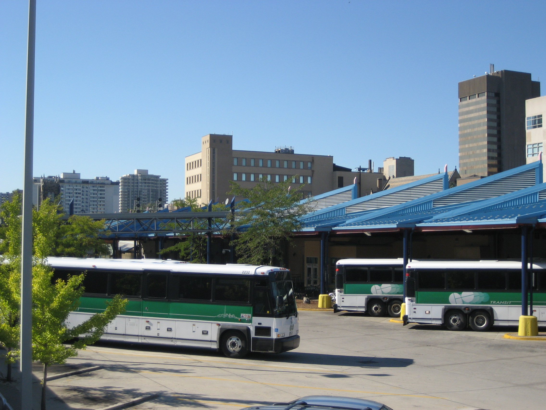 GO Transit, at John Street South & Haymarket Streets, downtown Hamilton